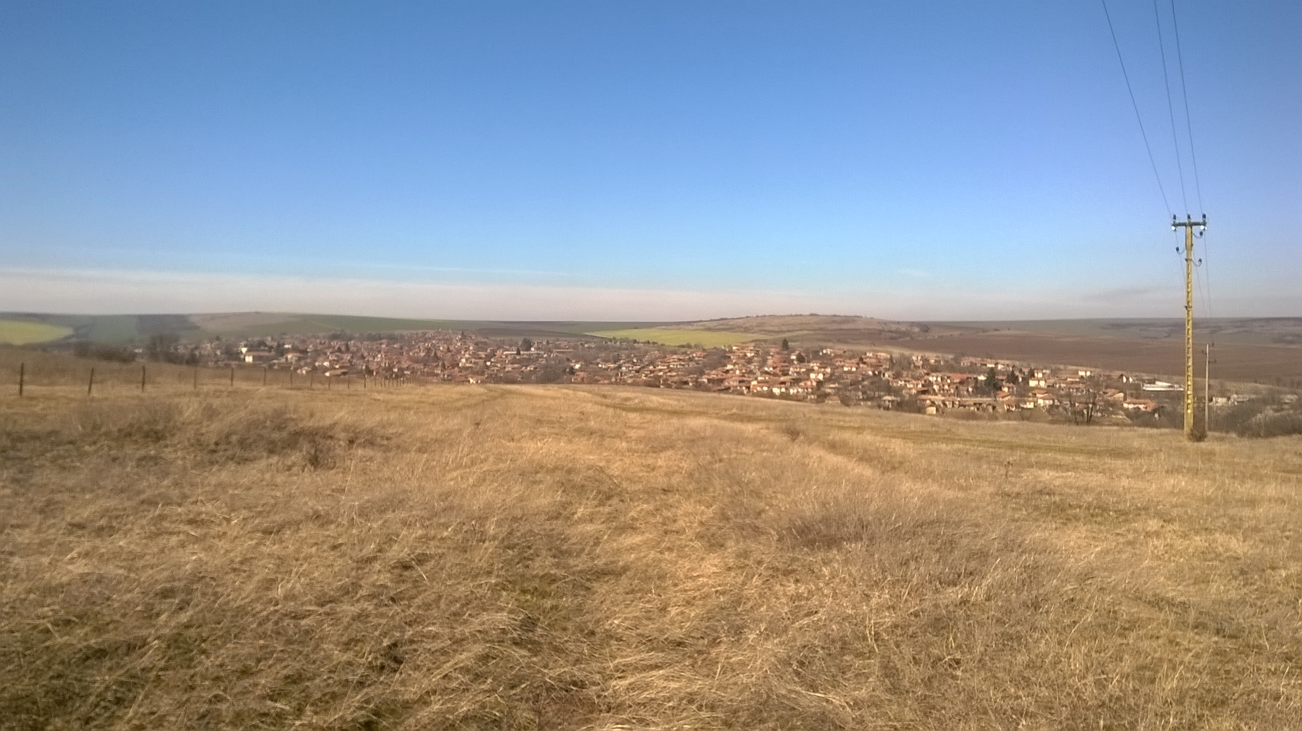 Bulgarian Village in Veliko Tarnovo Province. Picture taken in 2015